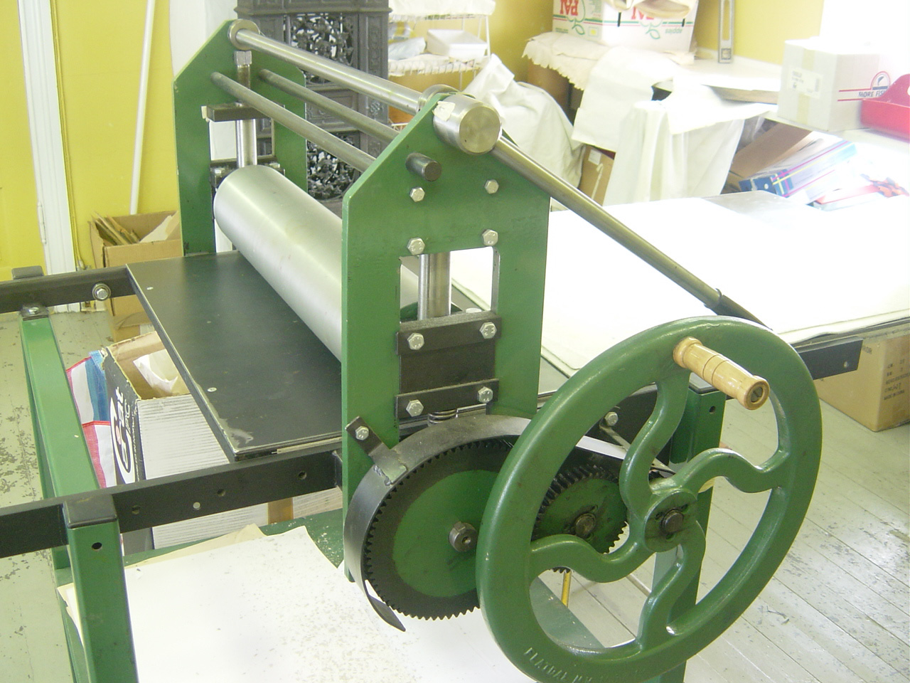 The Intaglio printmaking (printing) press